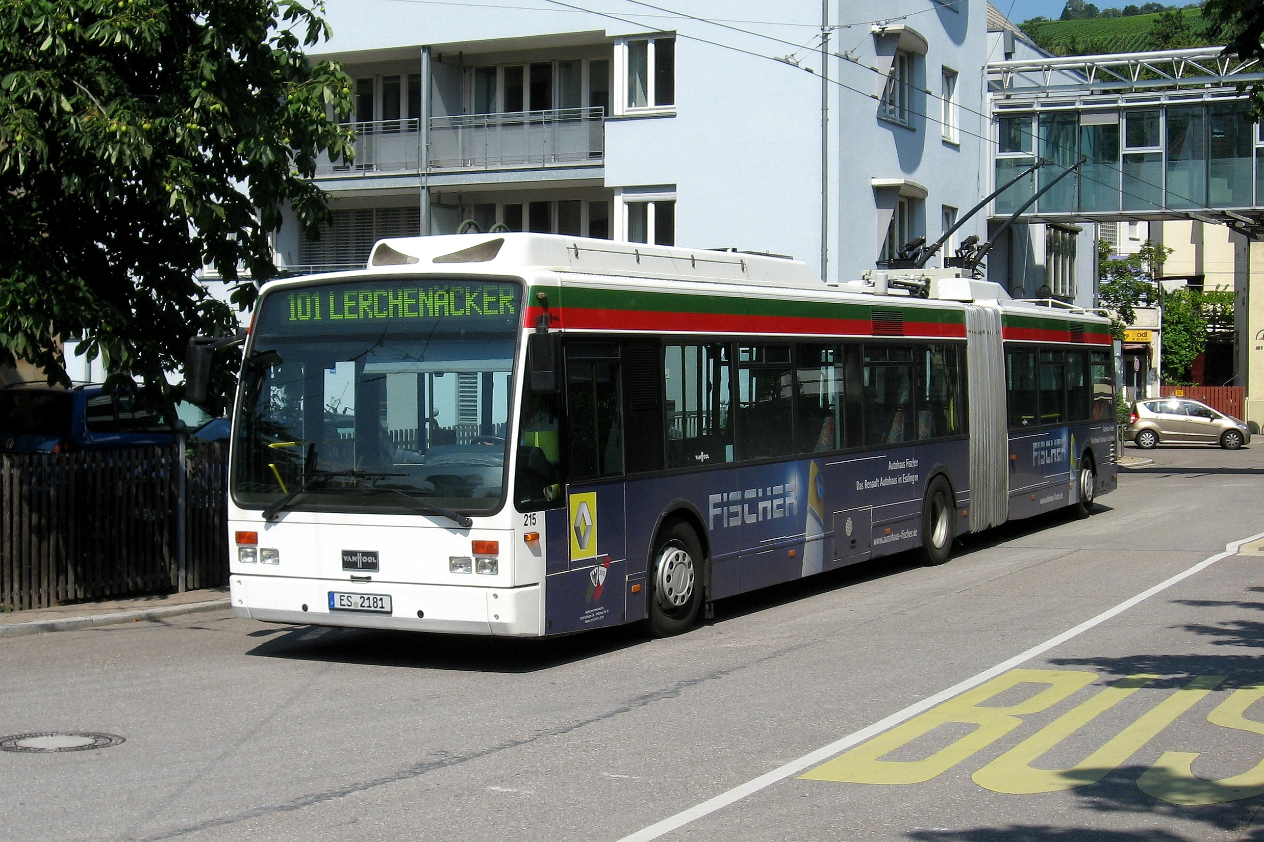 A Van Hool AG300T trolleybus of the Esslingen (Germany) transit system, at the Stuttgart-Obertürkheim terminus.